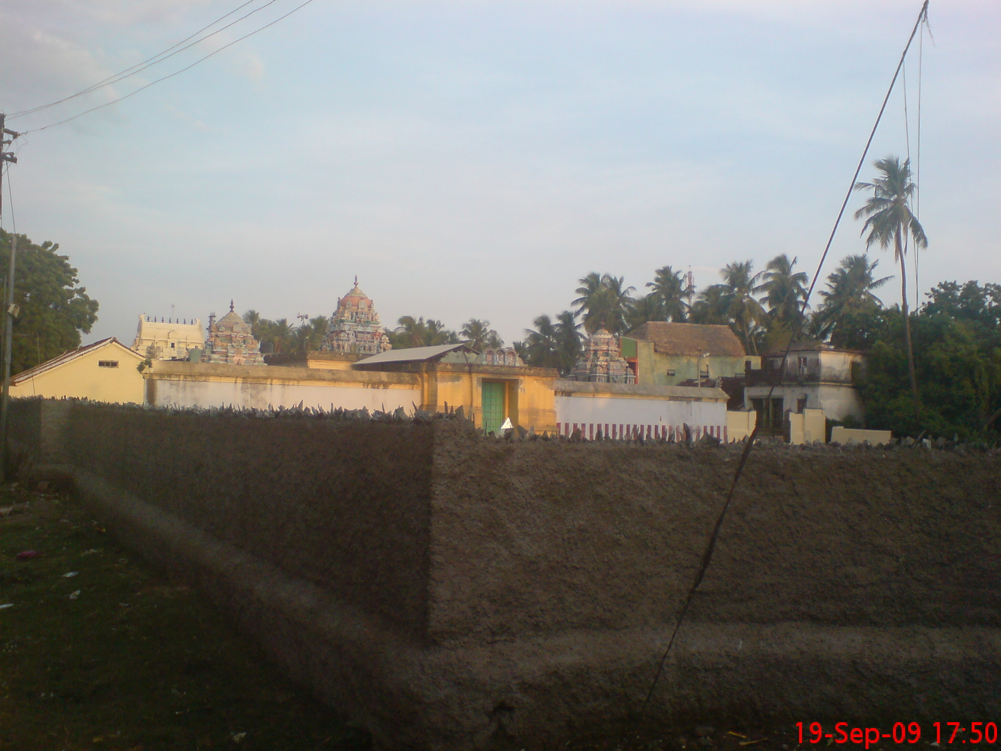 Sirkazhi Temple